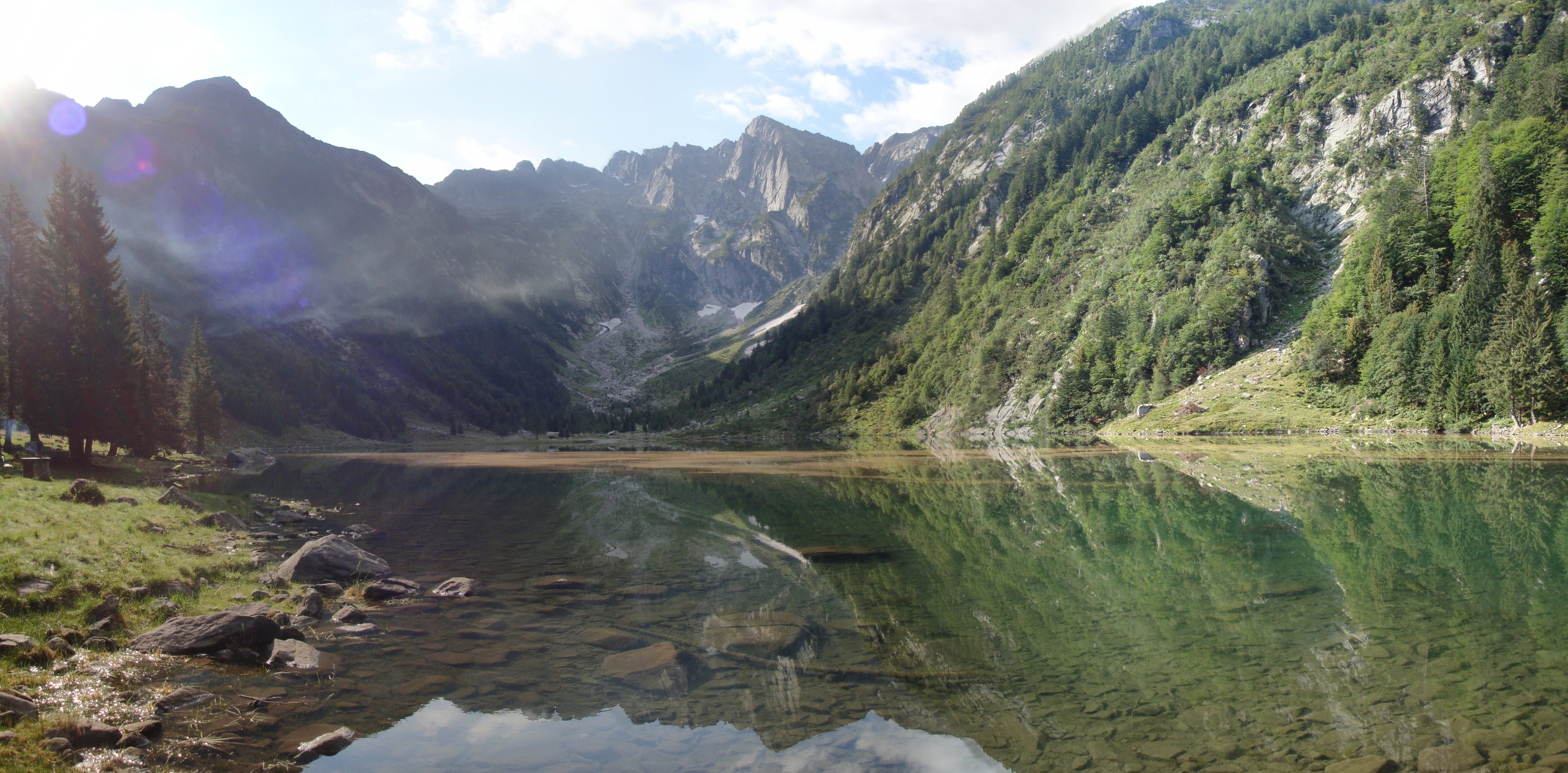 Early morning, Val Cama, Graubunden, Switzerland